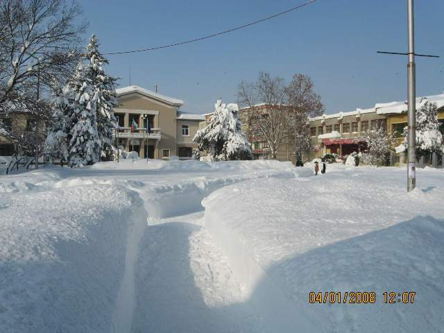 Belene culture house